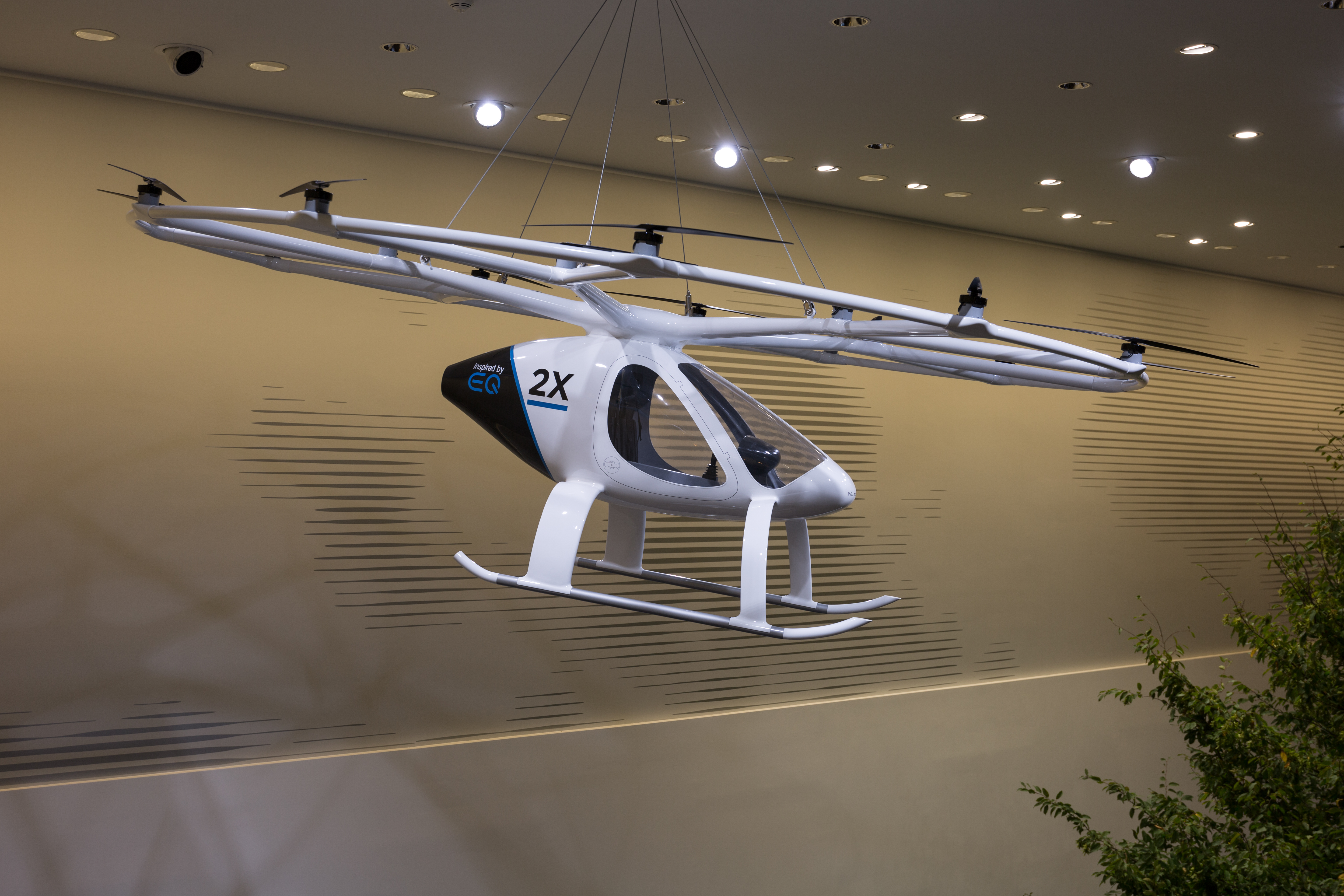 Volocopter X2 scale model